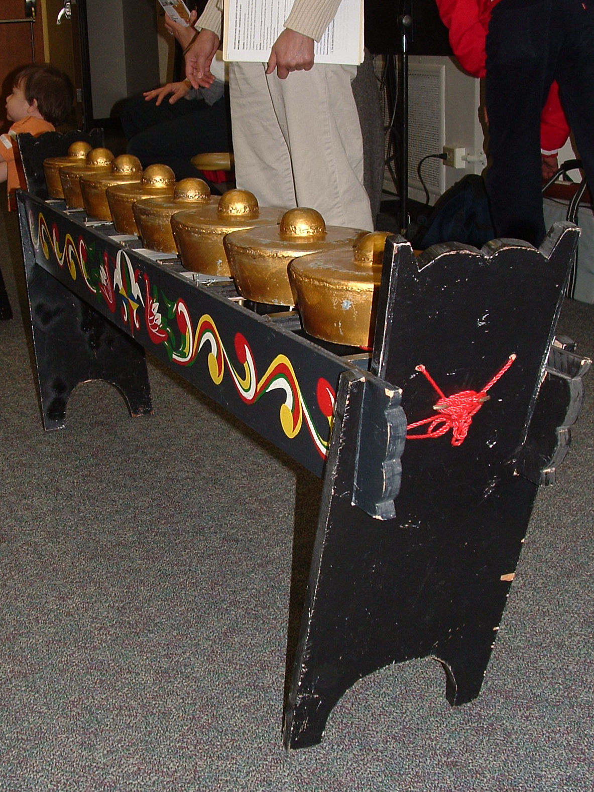 The eight Philippine horizontally laid, knobbed gongs known as the kulintang used as a main melodic instrument in the kulintang ensemble. Here, it is used as an accompaniment for a healing ritual. The dancers perform the dance, sagayan, while the kulintang player performs the piece, Taggungo.